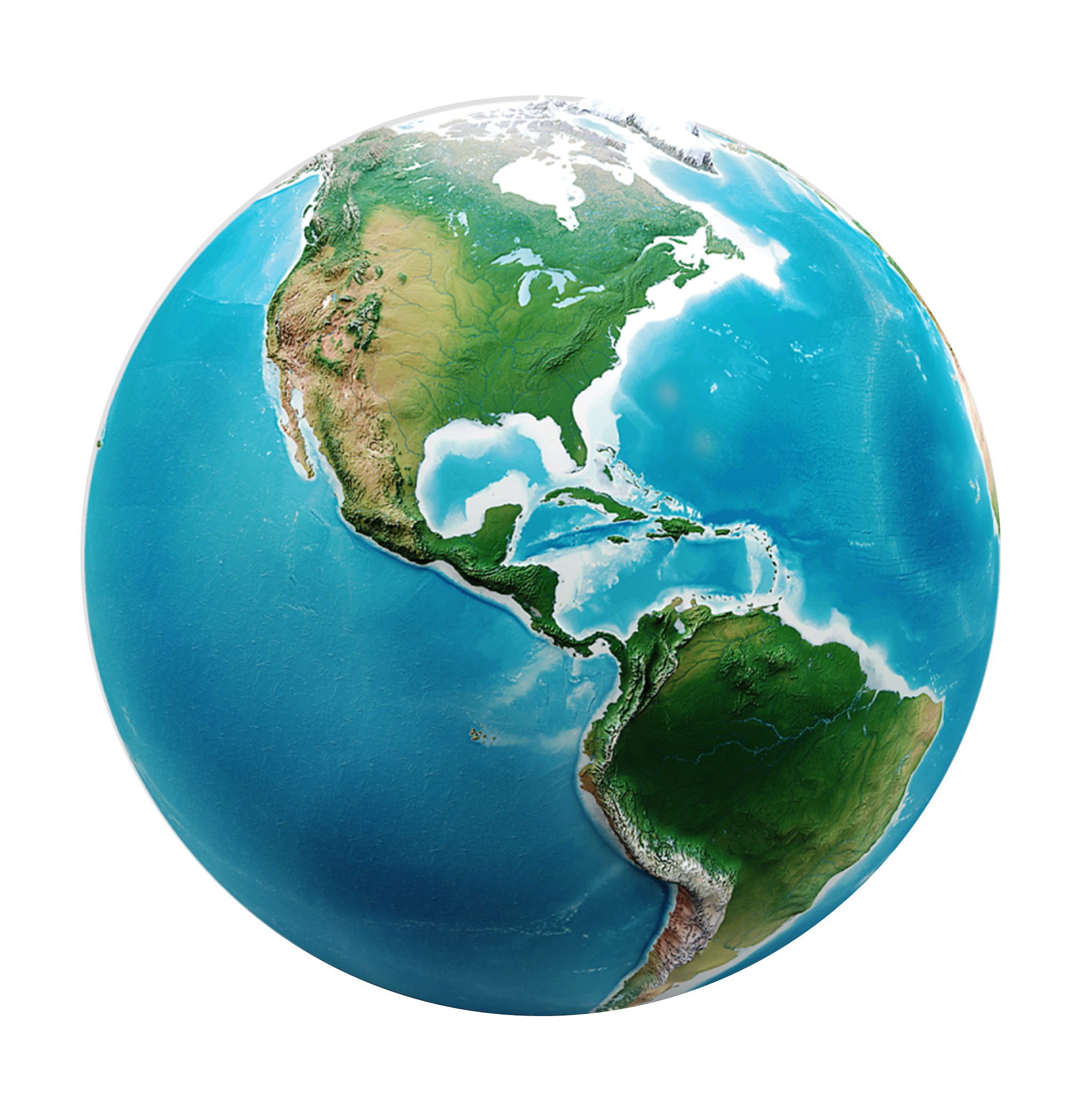 PNG Image format medium resolution geographic globe representation.